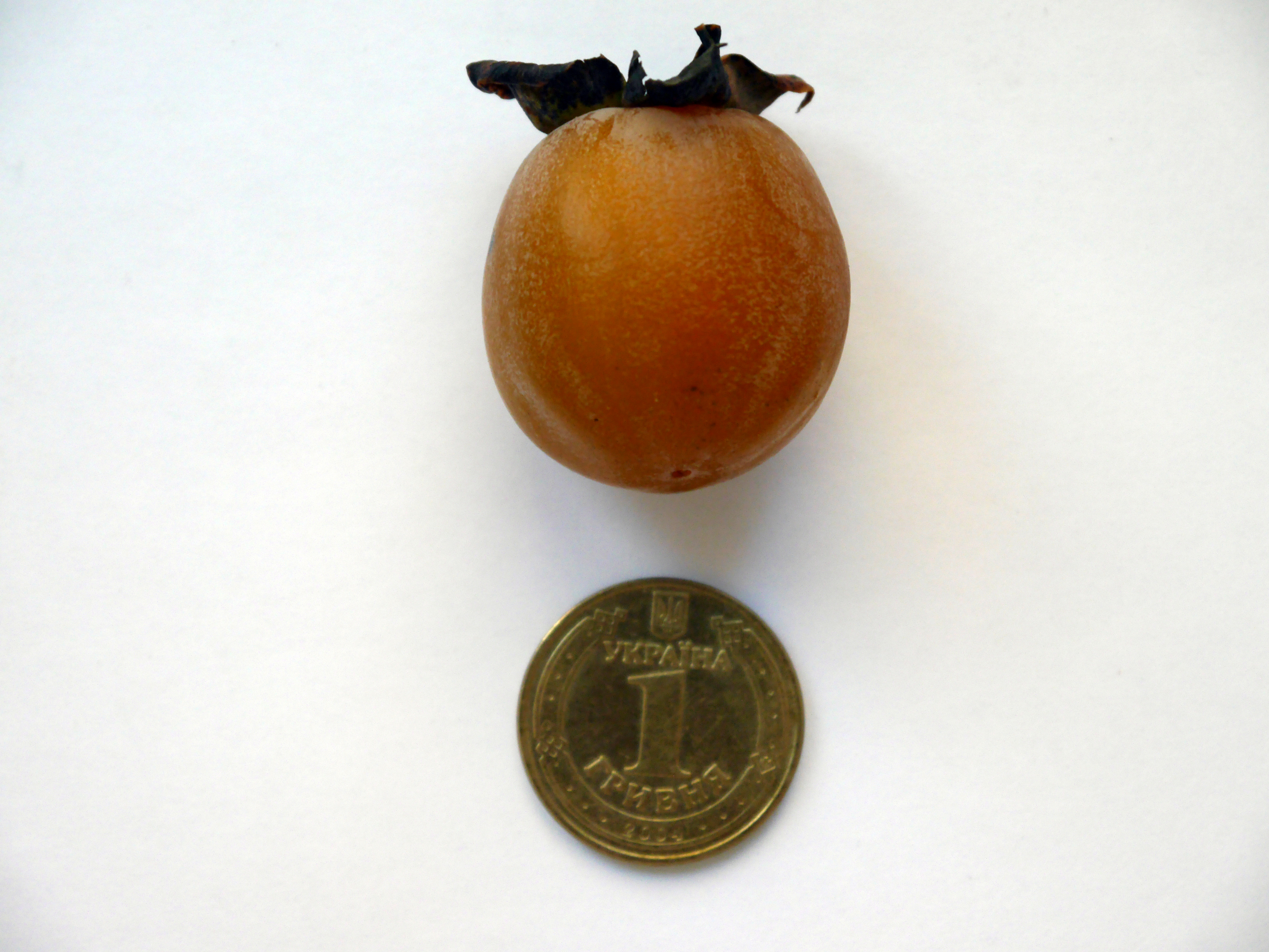 Mature fruit of Caucasian persimmon (Diospyros lotus) from plantations of Institute of Horticulture NAAS (Novosilky, Ukraine)